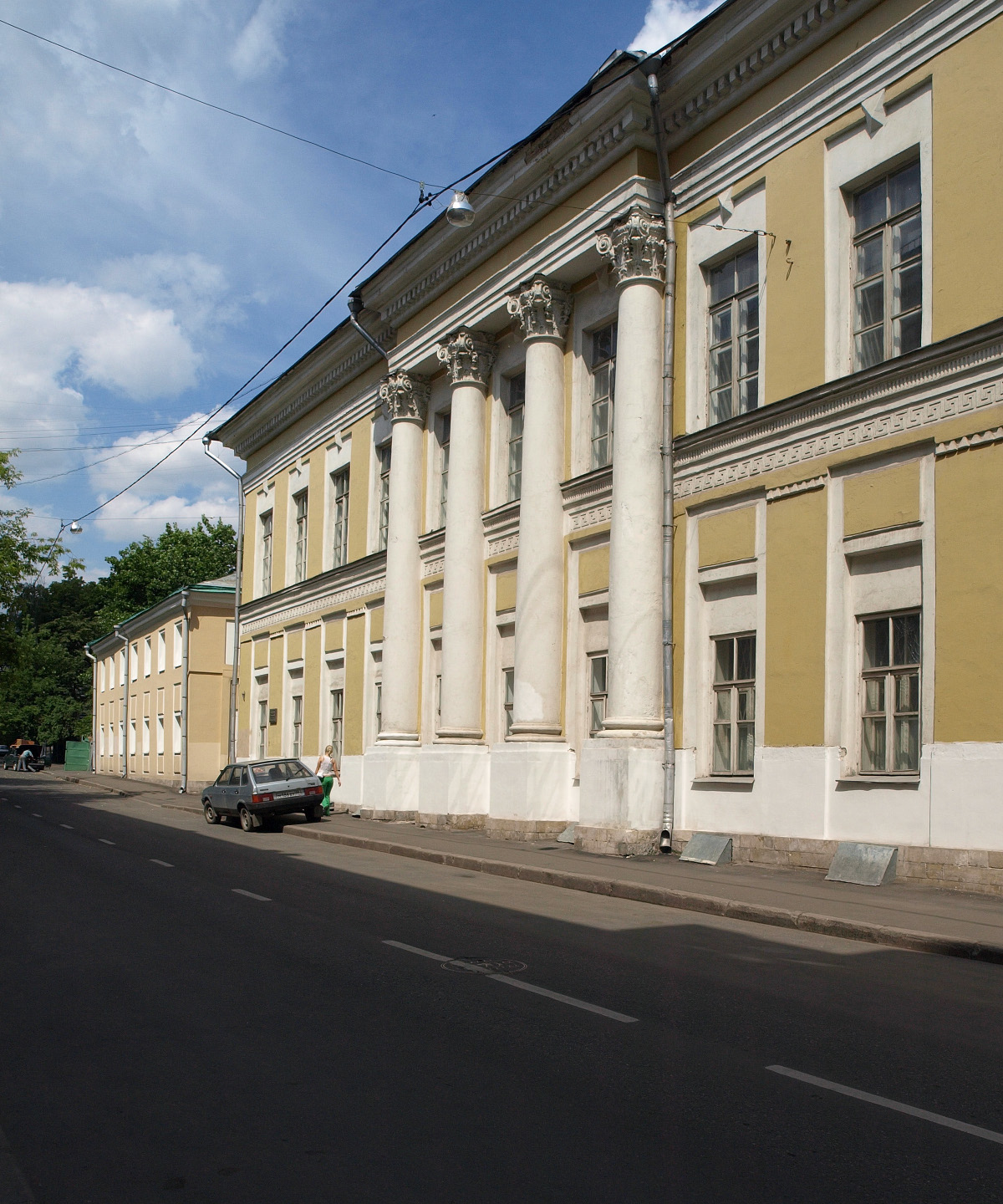 Khlebny Lane, Moscow.